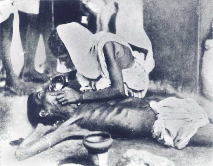 Image depicts Bengal famine 1943, a worried woman and a man